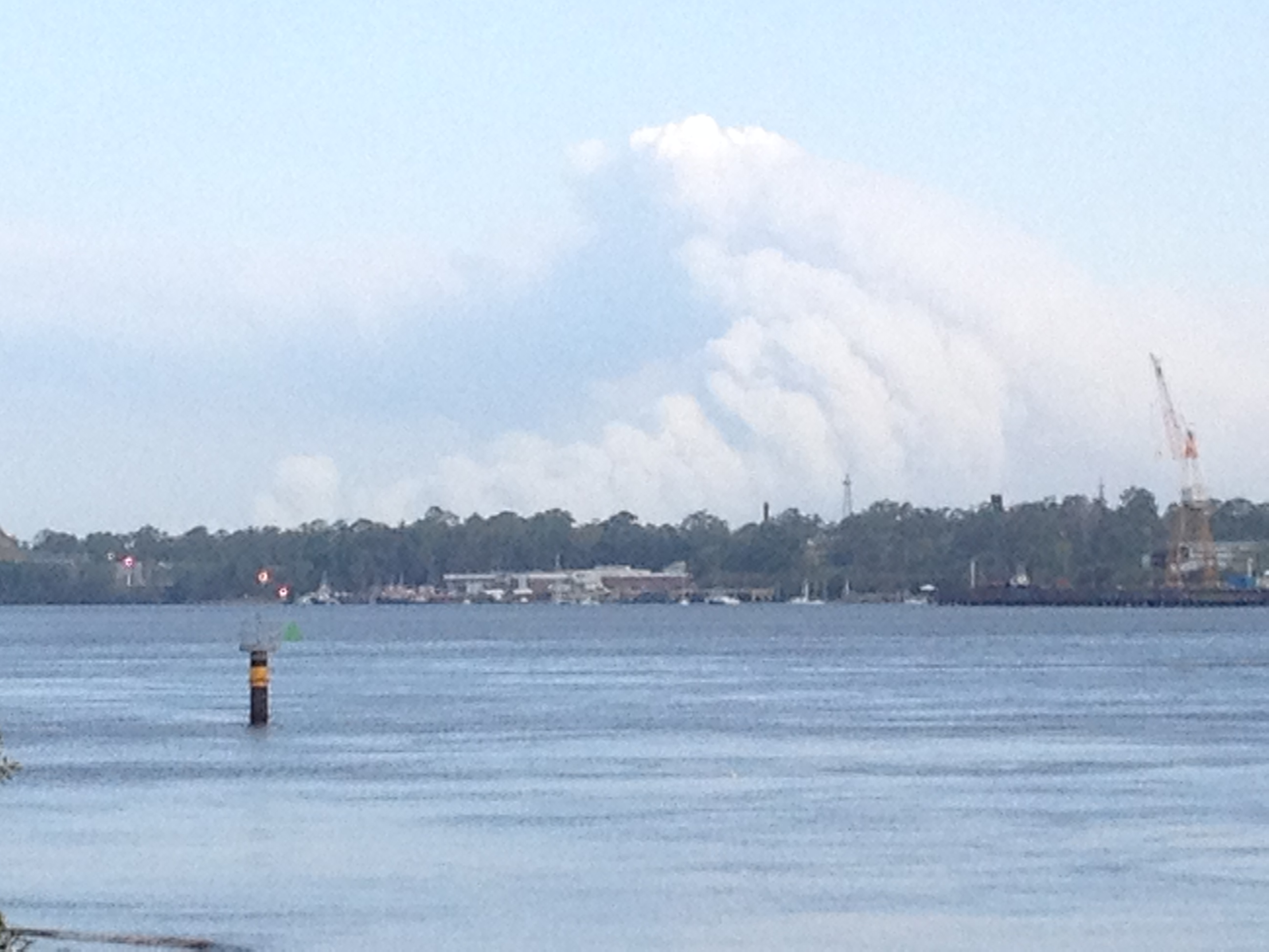 Smoke plumes from bushfires on North Stradbroke Island seen from Hamilton on 3 January 2014.